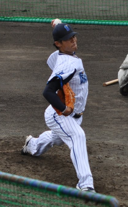 Shugo Fujii, pitcher of the Yokohama DeNA BayStars, at Ginowan Municipal Baseball Stadium.